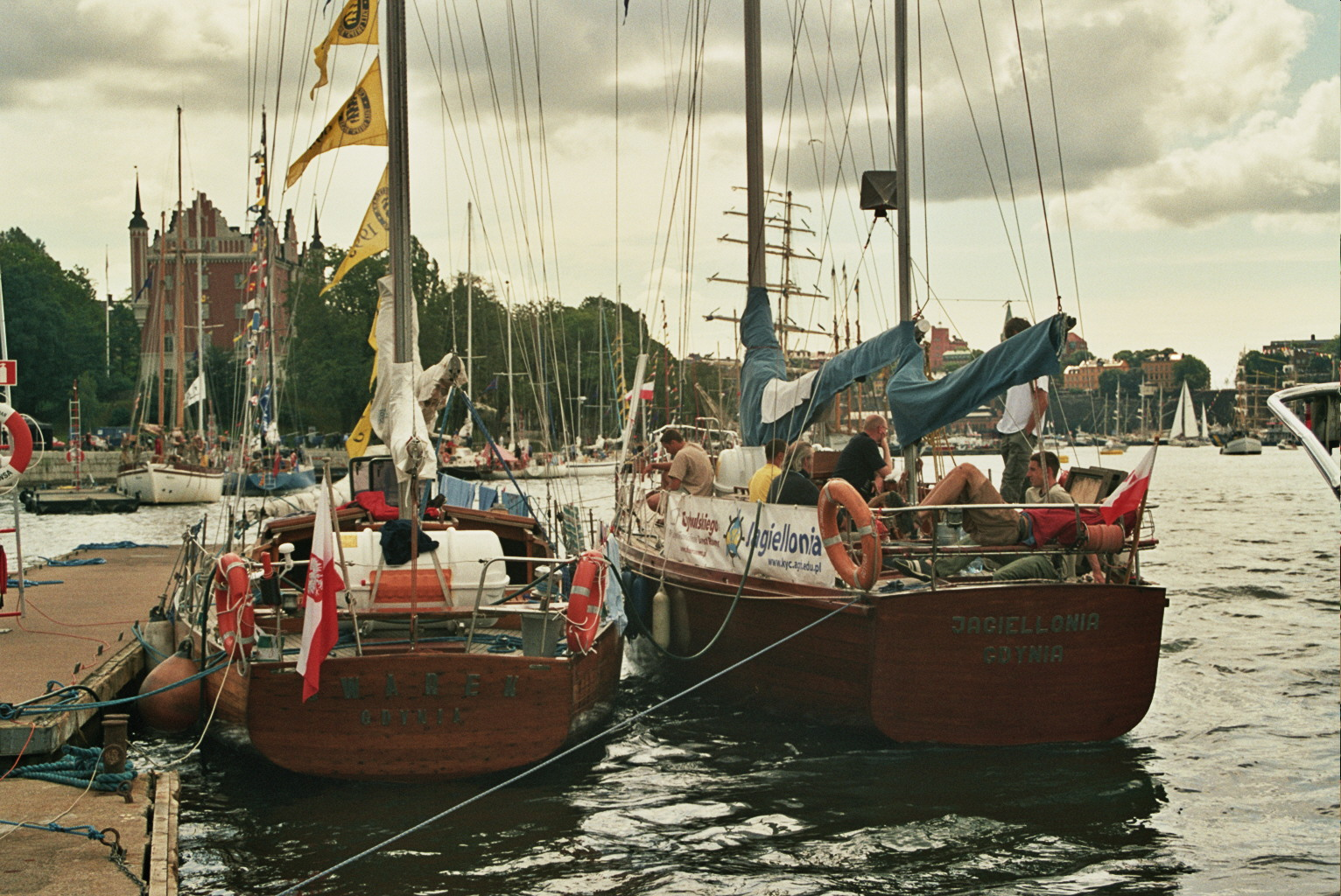 The Opal type Polish sailing yachts Jagiellonia and Gwarek in Stockholm during the Tall Ships' Races 2007.